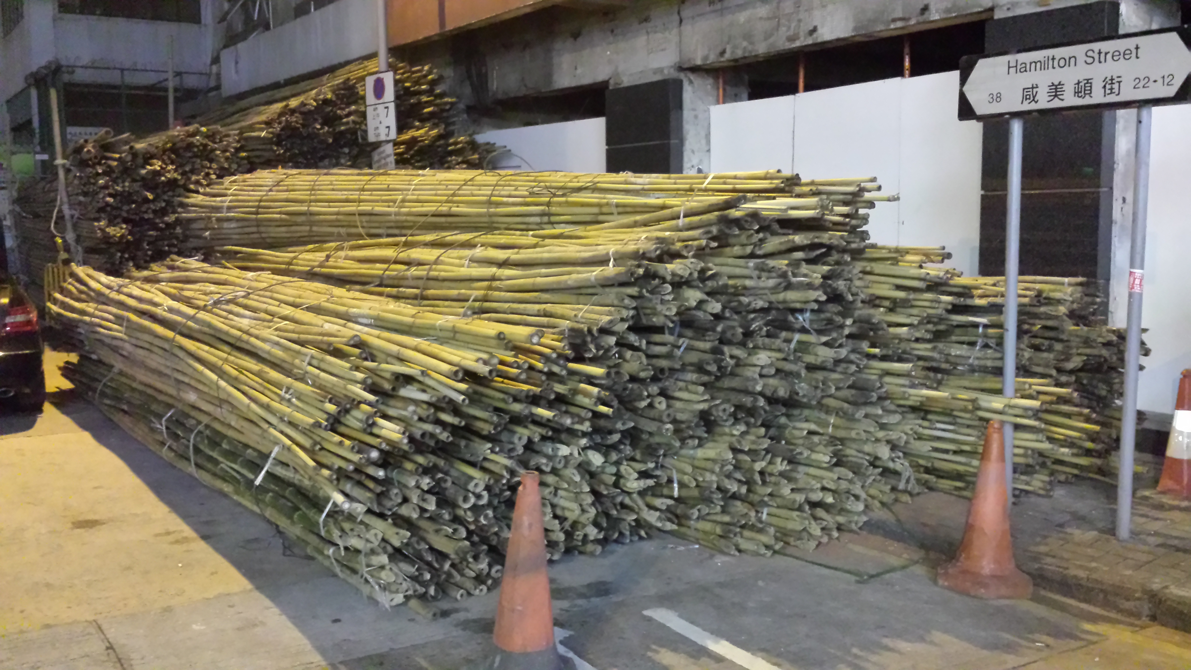 bamboo scaffolding in bunches Hong Kong 2013